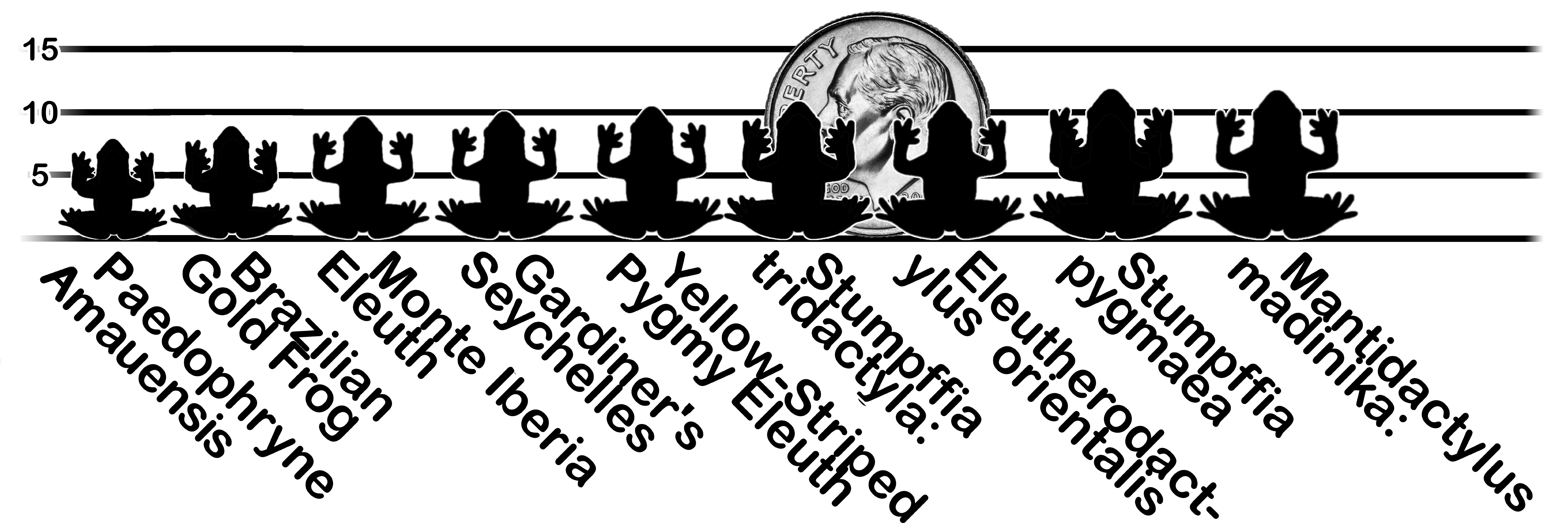 A relative comparison of the world's smallest frogs; behind them is a US dime, which is 17.9 mm in diameter, for scale